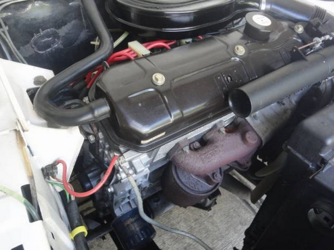 1.5 litre carburetted Peugeot XR5 engine in a 1982 Peugeot 305 GR (chassis code 581A21). This was a late version of the long-running engine family originally developed for the 204 in 1965.